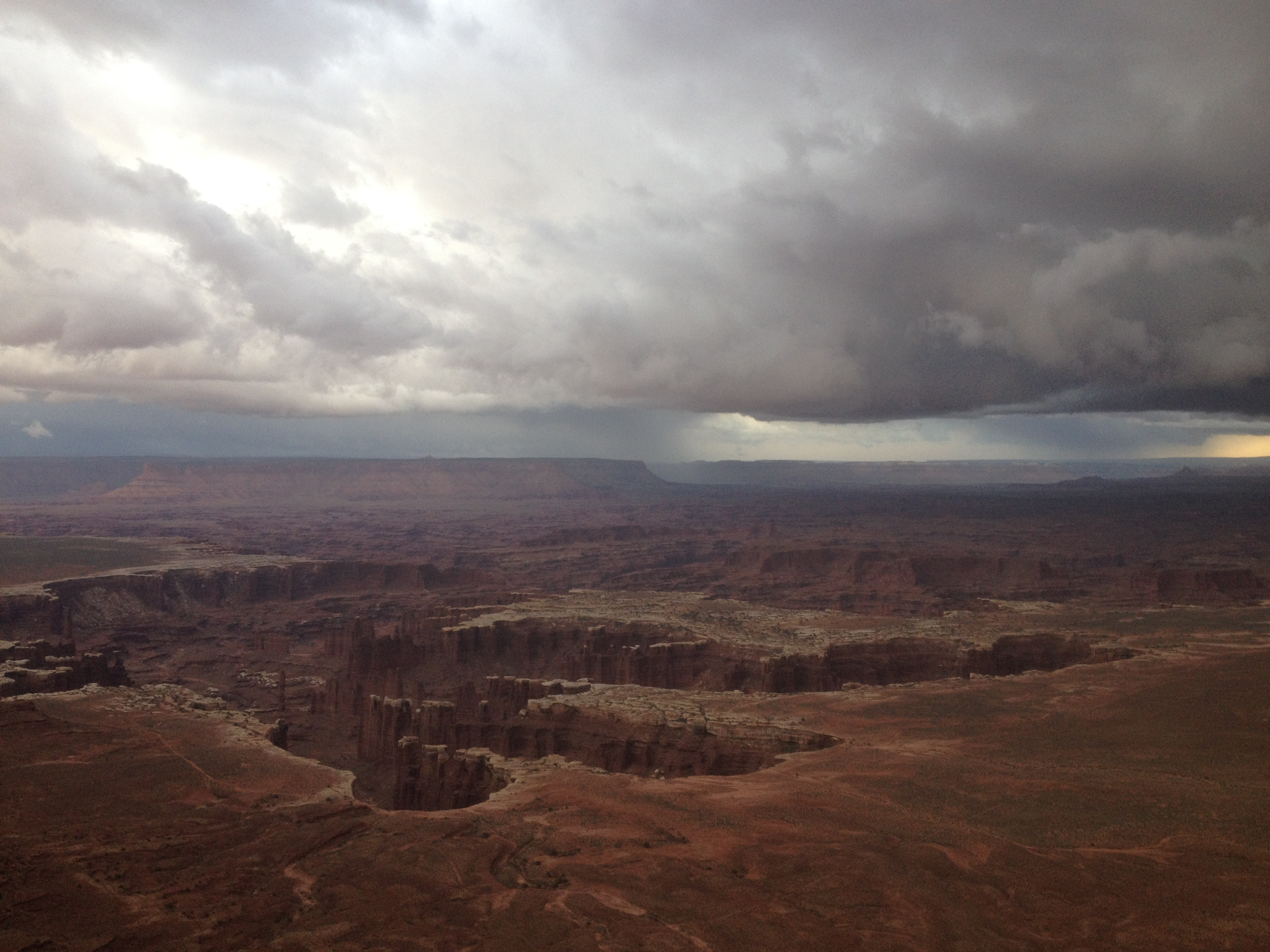 Thunderstorms in Canyonland National Park.